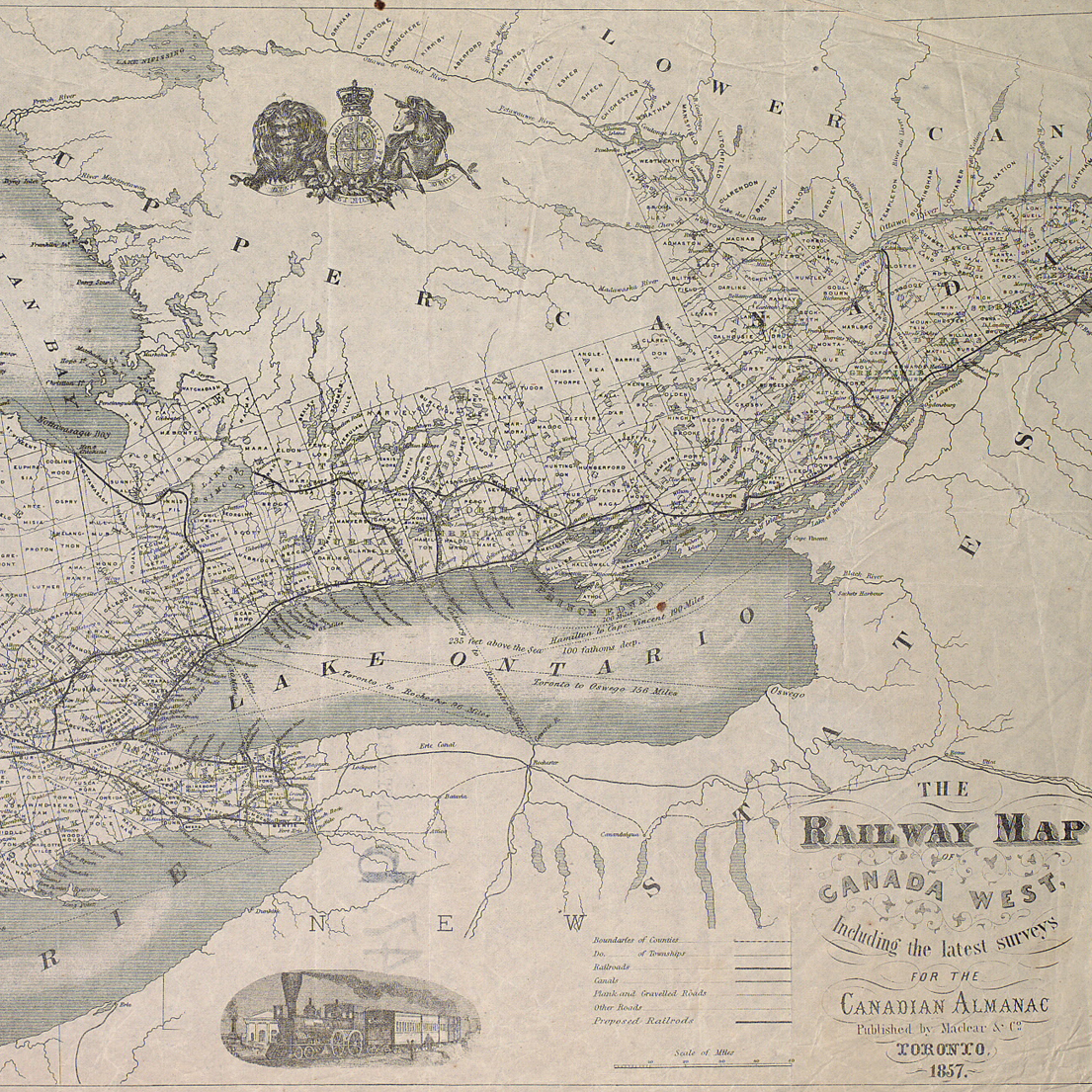 This image shows a portion of a map of the railway system in Canada West - today's Ontario - as it existed in 1857. The image shows only the eastern section of the map, cutting off the western portion around London, Ontario. The main lines shown are, roughly from east to west: The Grand Trunk Railway running along the north bank of Lake Ontario and curving around to Hamilton and Niagara. The Bytown and Prescott leading from the Grand Trunk to Ottawa. The Brockville and Ottawa leading north from Brockville and stopping in what was then the middle of nowhere. The Grand Junction Railway (not actually built until 1870) leading from Belleville to Peterborough. The Cobourg and Peterborough running north across Rice Lake. The Port Hope, Lindsay and Beaverton - soon to be extended to Midland - running to the eastern side of Lake Simcoe. The Ontario Simcoe and Huron Union running up the western side of Lake Simcoe and then turning northwest for Collingwood. The Hamilton and Toronto running west-southwest out of Toronto. The Great Western Railway running almost due west out of Hamilton at the western tip of Lake Ontario, as well as east-southeast of Hamilton along the southern edge of Lake Ontario. The Toronto and Guelph running northwest out of Toronto and then east-southeast. The Hamilton and Northwestern connecting the Great Western and Toronto and Guelph just west of Hamilton, and later connecting to Collingwood. The Buffalo and Lake Huron running west-northwest out of Buffalo.